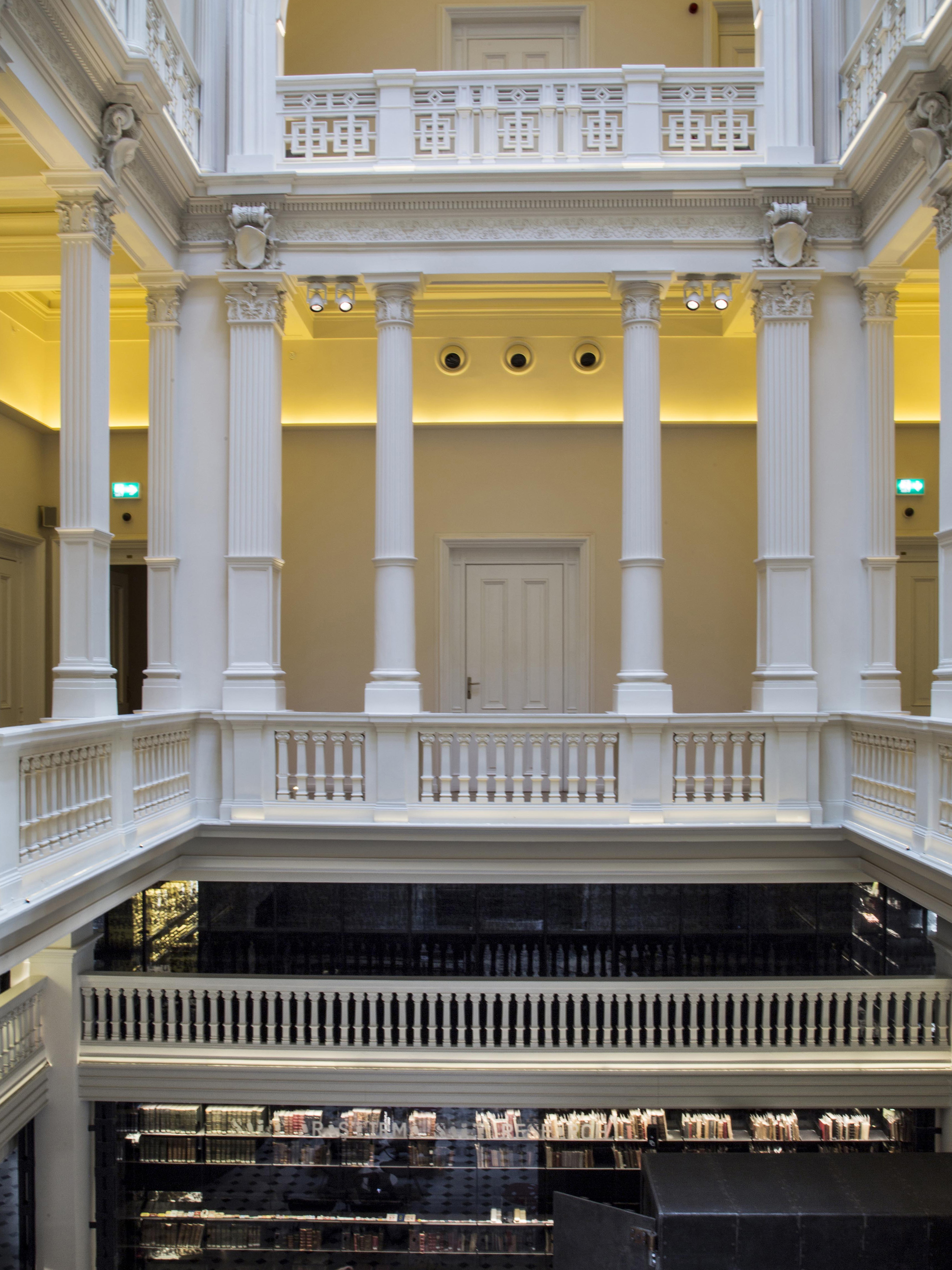 Interior of the former Imperial Ottoman Bank head office, Karaköy, İstanbul, now SALT Galata